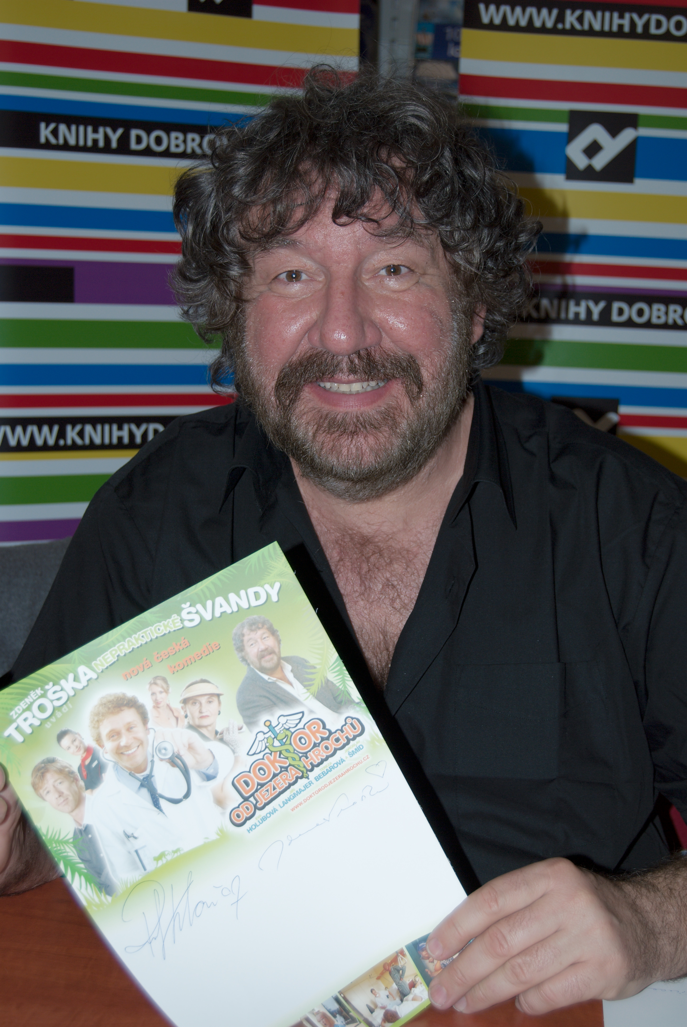 Czech director Zdeněk Troška